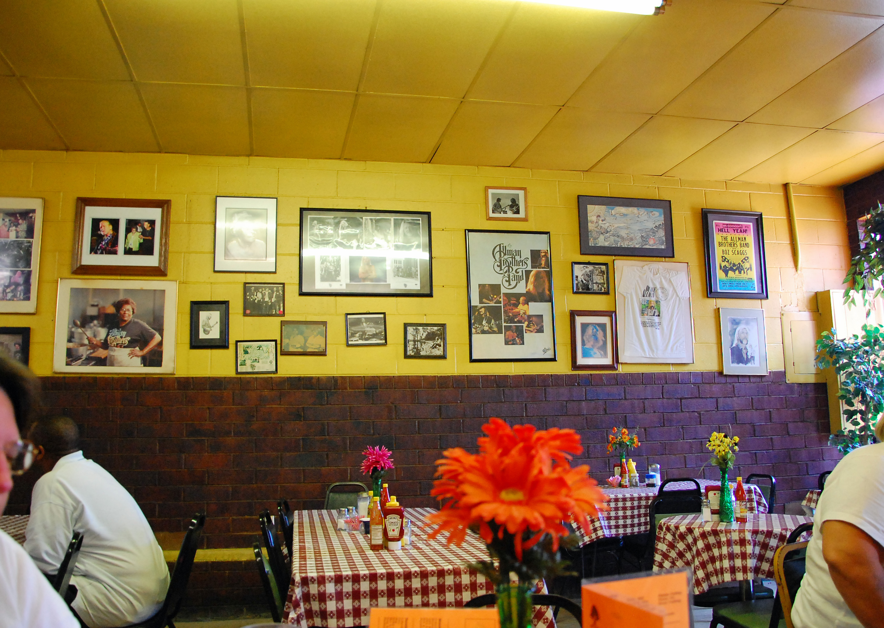 Inside H&H Restaurant, Macon, Georgia.